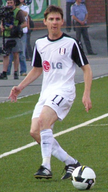 Zoltán Gera in action for Fulham F.C.